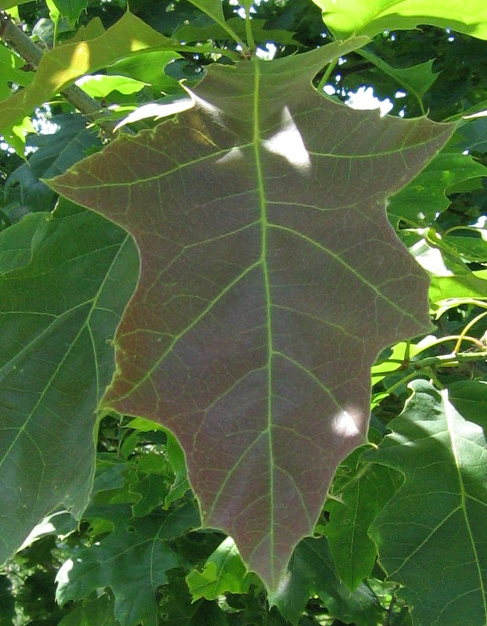 Quercus rubra (Northern Red Oak, Eastern Red Oak) leaf detail, photographed at the University of Idaho Arboreturm and Botanical Garden